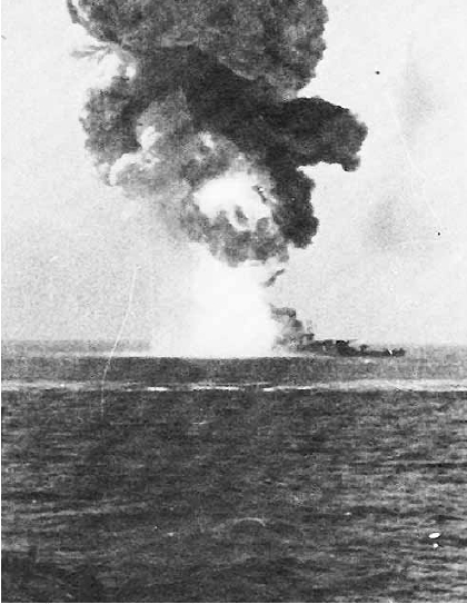 The Italian battleship Roma explodes after being hit by a German Fritz X radio-controlled bomb.